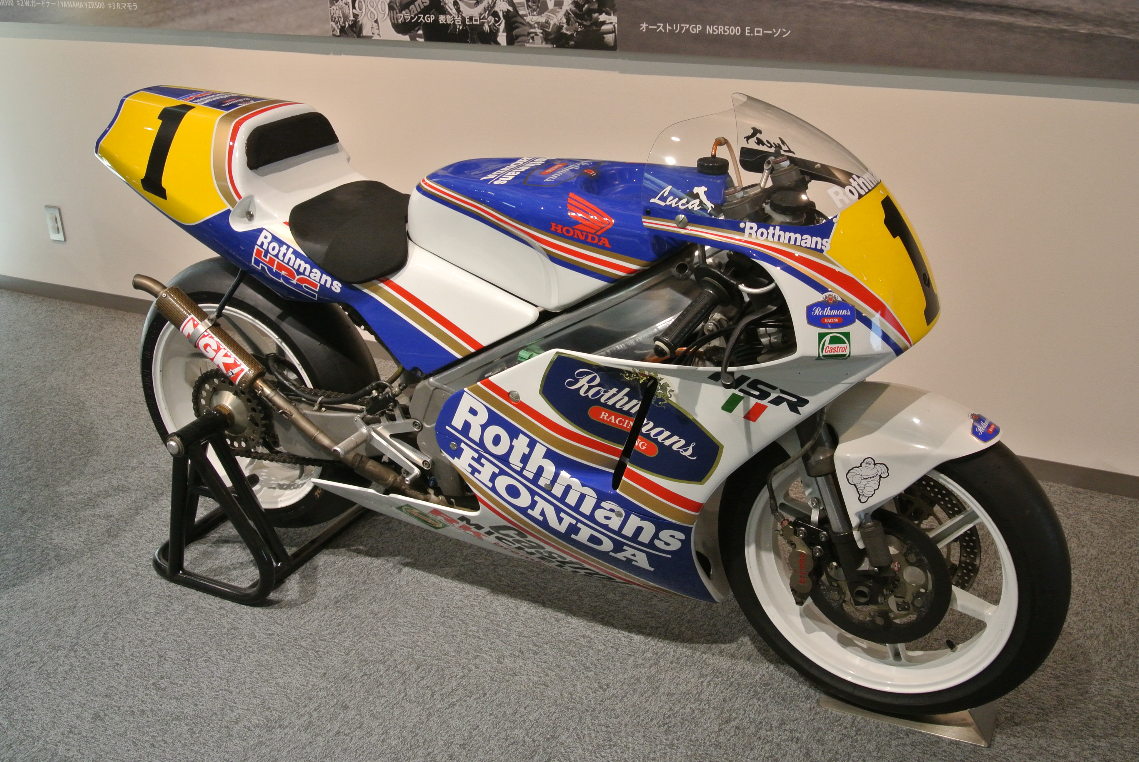 1992 NSR250 in the Honda Collection Hall.